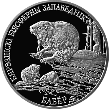 Environmental protection. Commemorative coins "Byarezіnskі bіyasferny zapavednіk. beaver (" Berezensky Biosphere Reserve. beaver ")